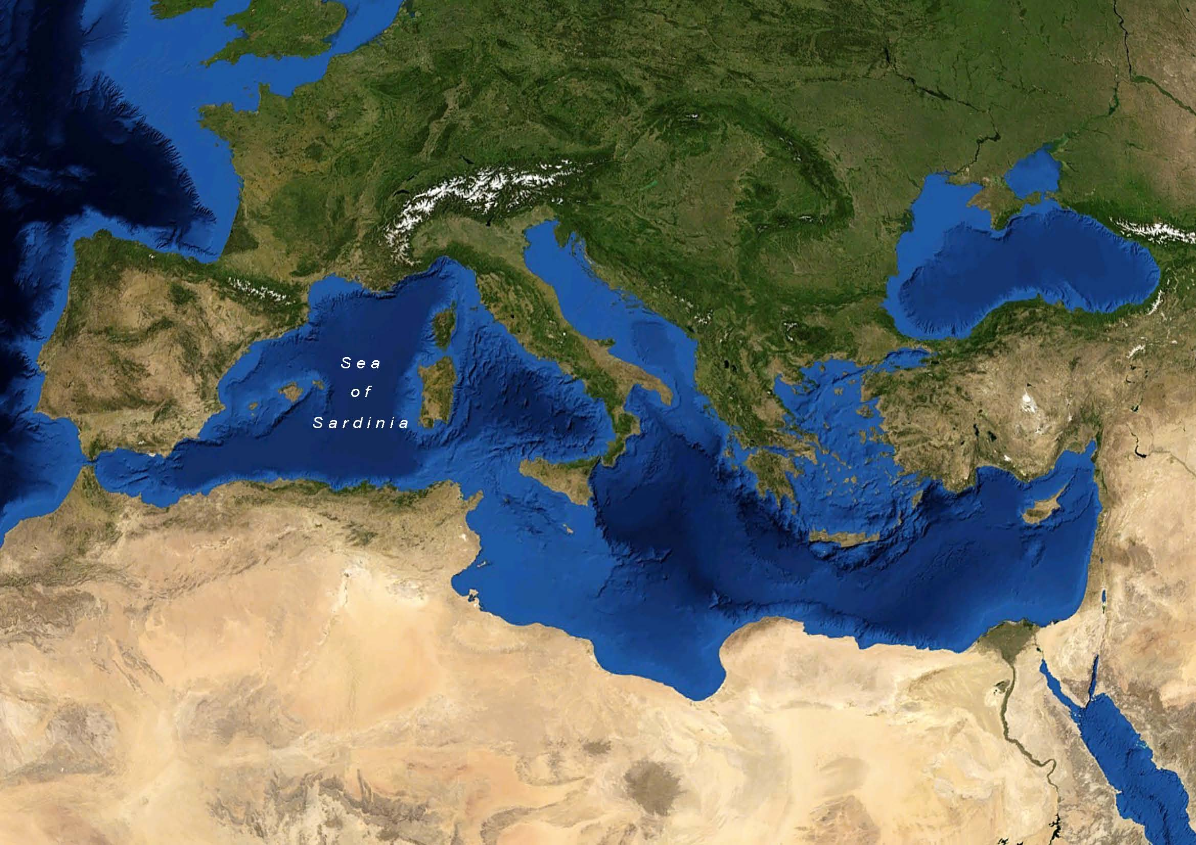 Map of Sea of Sardinia